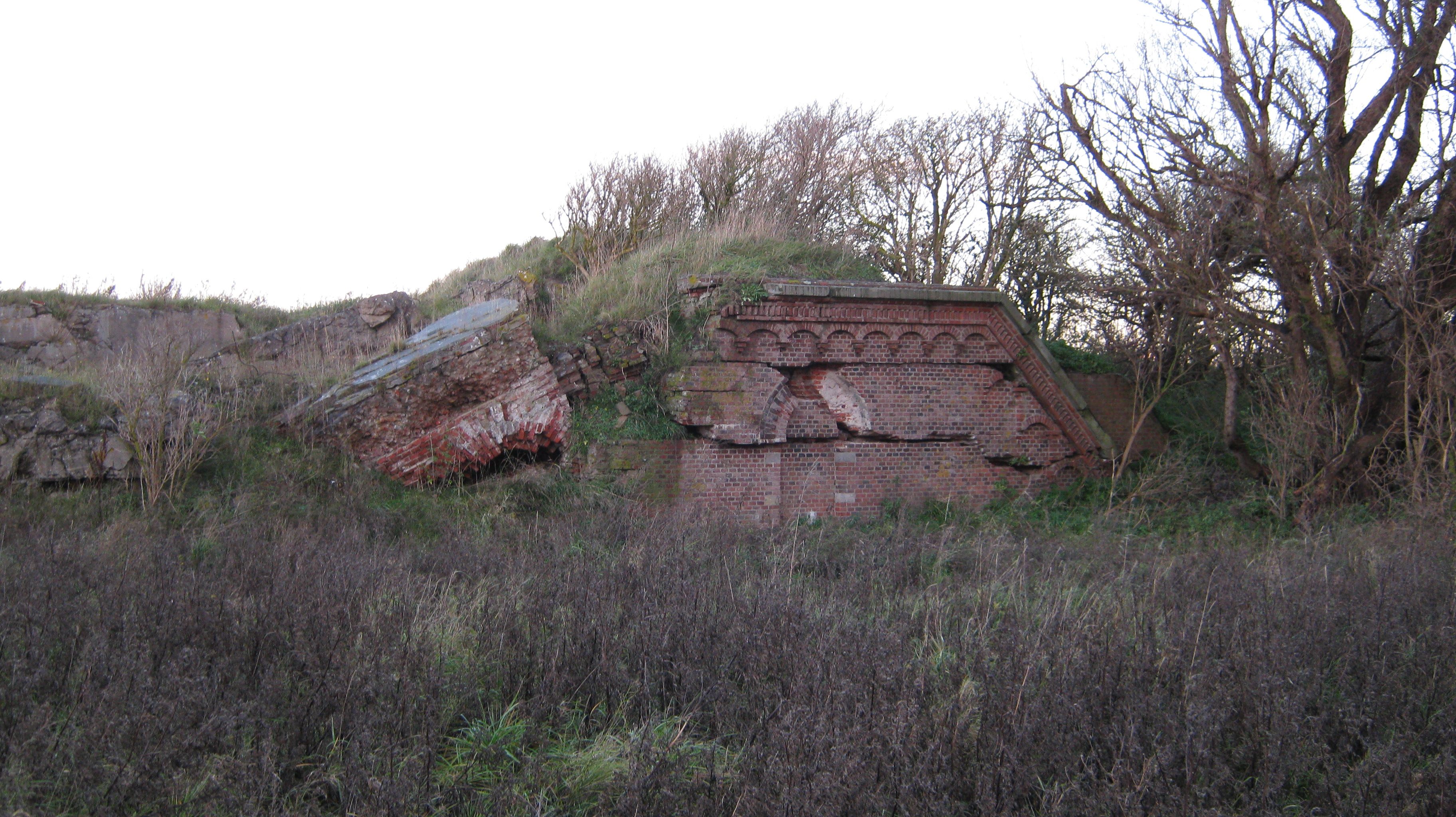 Langlütjen I